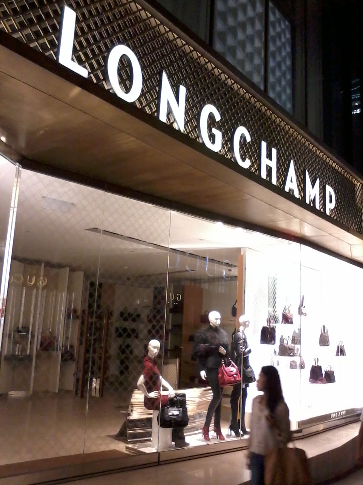 LongChamp clothing shop at no 8 Ice House Street, Queen's Road Central, Hong Kong